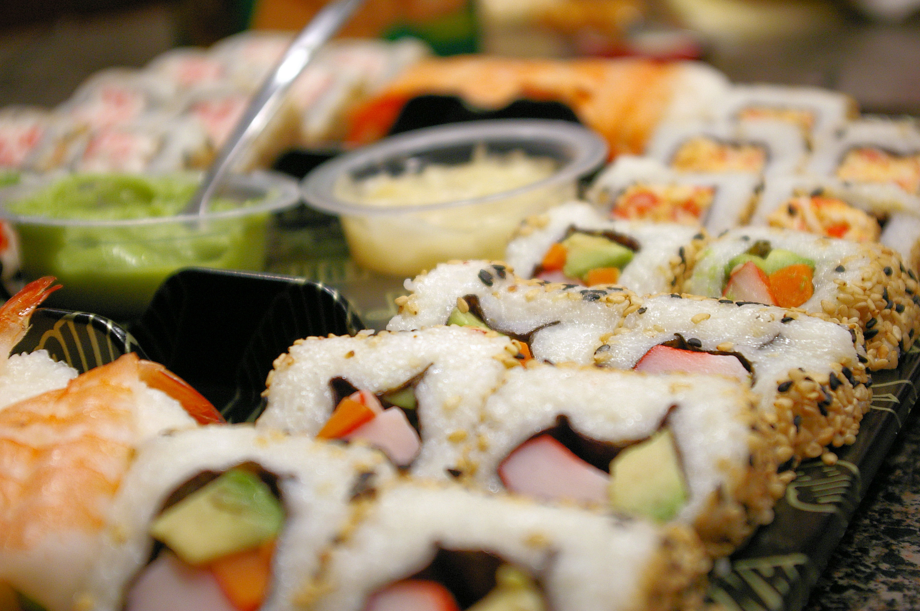 Western Sushi found at Wegmans Supermarket